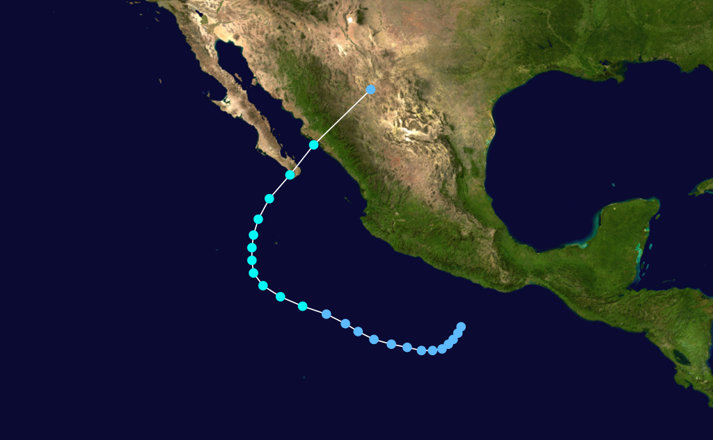 Tropical Storm Rachel (1990) track. Uses the color scheme from the Saffir-Simpson Hurricane Scale.